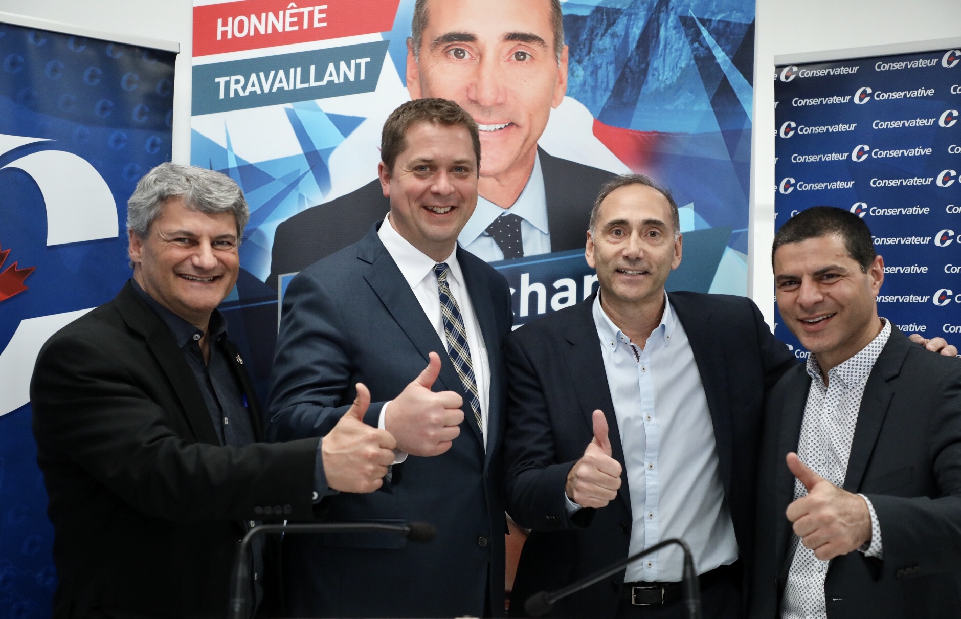 Great evening last night as we opened up Richard Martel’s campaign office. He has a lot of support, and a great vision for his community of Chicoutimi—Le Fjord. I couldn't think of anyone better to be the voice for this community in Ottawa.